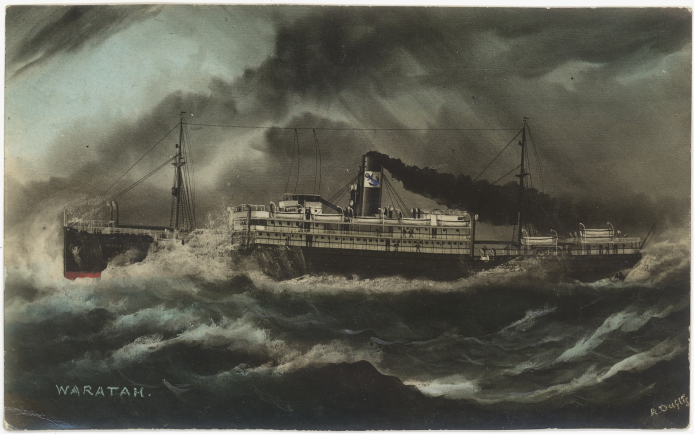 SS Waratah old postcard